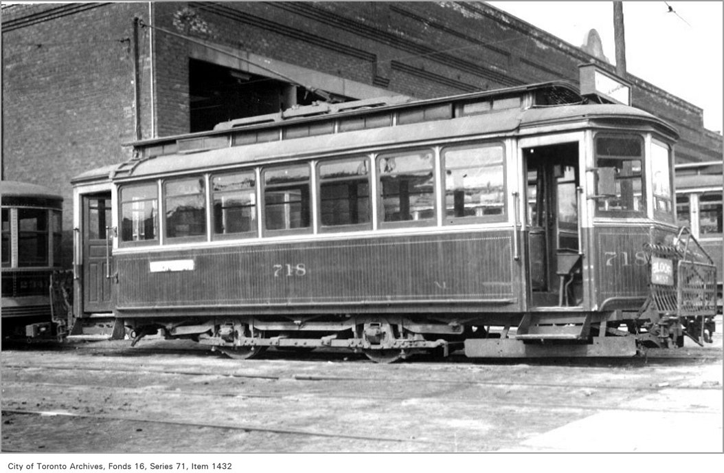 Creator: Alfred J. PearsonDate: 1921Archival Citation: Fonds 16, Series 71, Item 1432Credit: City of Toronto Archives is in the public domain and permission for use is not required.